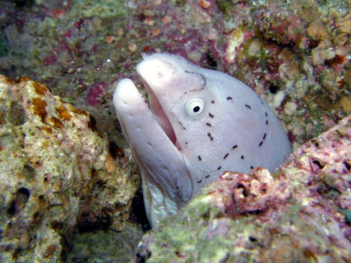 Gymnothorax griseus syn. Siderea grisea